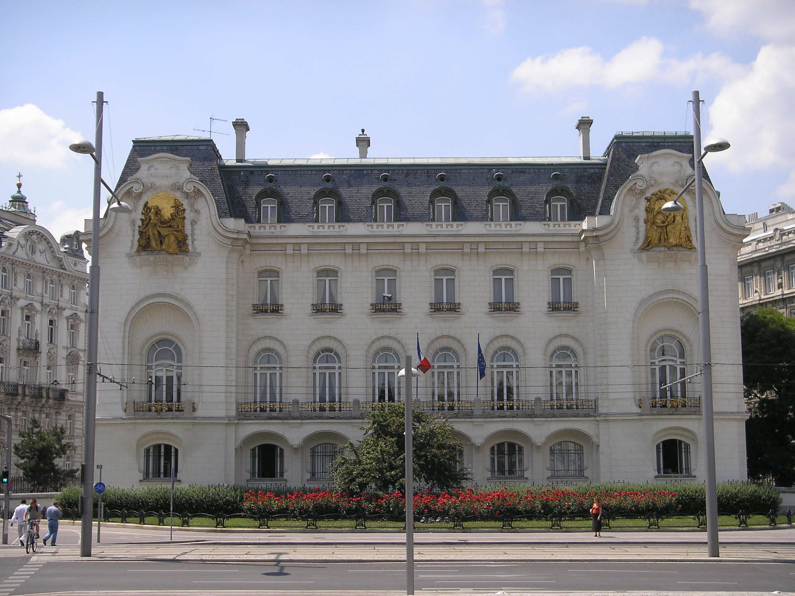 French Embassy in Vienna, built around the early 20th century.